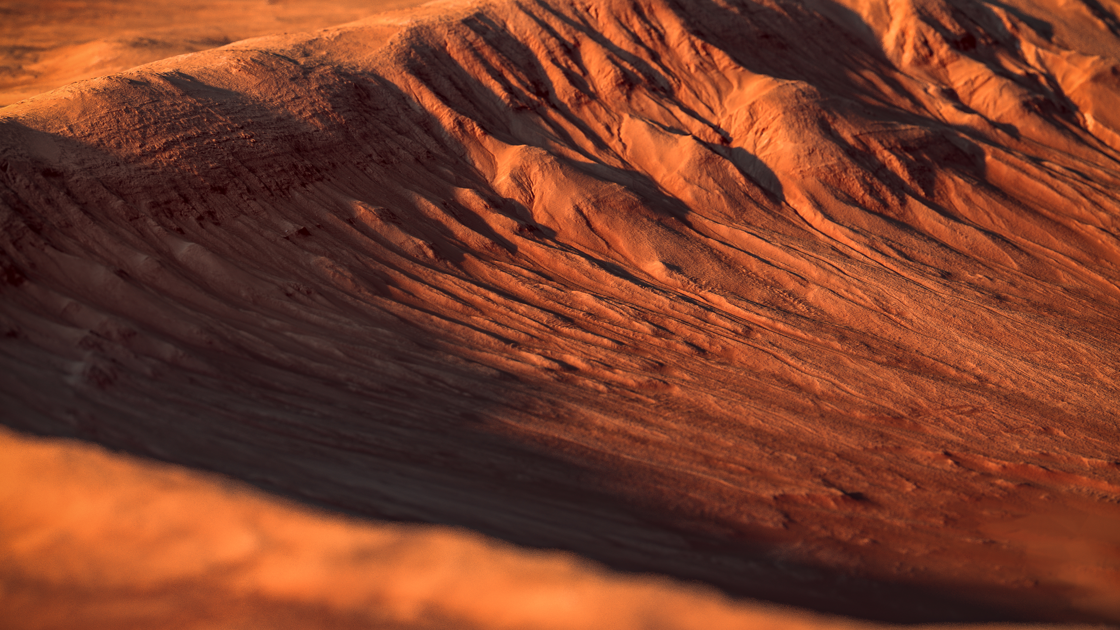 Rendered using Autodesk Maya and Adobe Lightroom. HiRISE data processed using gdal. Data: NASA/JPL/University of Arizona/USGS